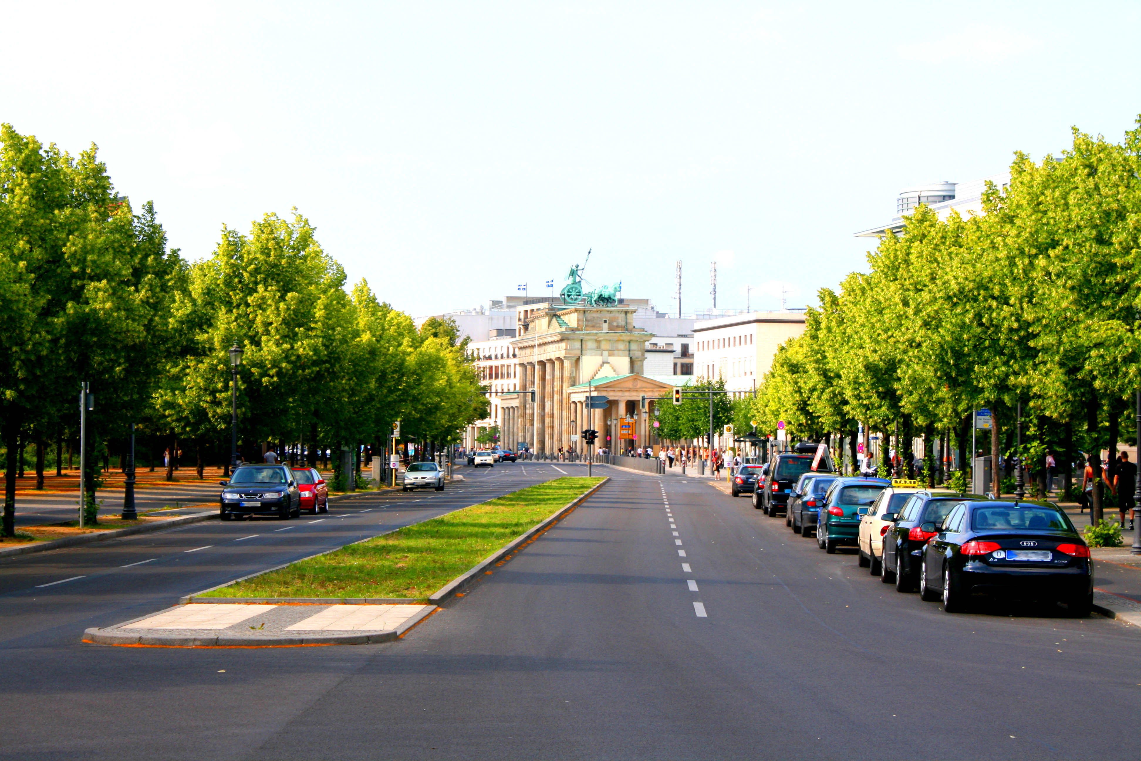 View north along Ebertstraße to the Brandenburg-Gate.